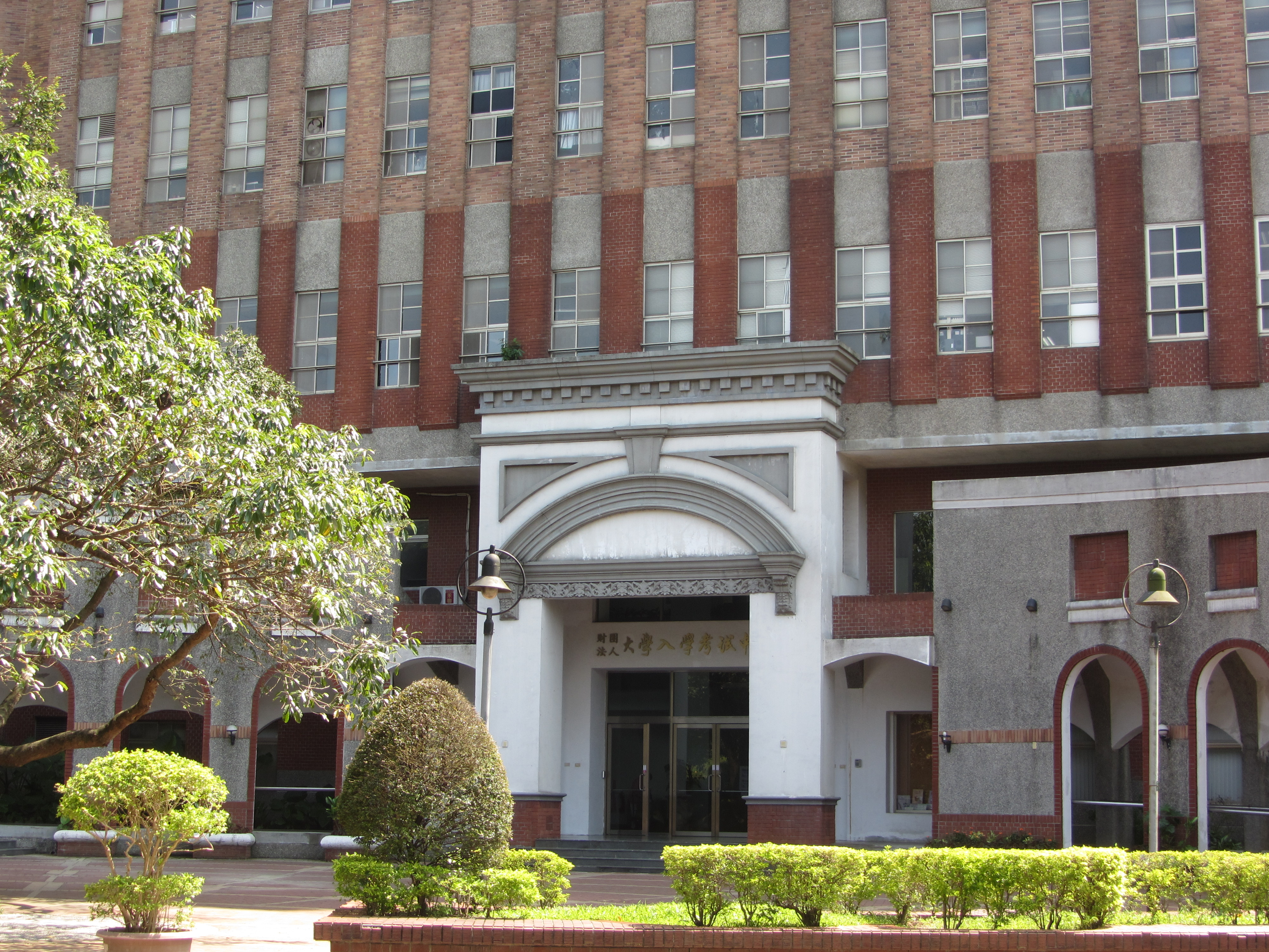 The main entrance of College Entrance Examination Center.